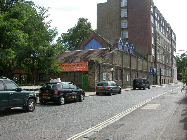 Theatre Peckham children's theatre in Havil Hall, Havil Street, next to Southwark Town Hall.